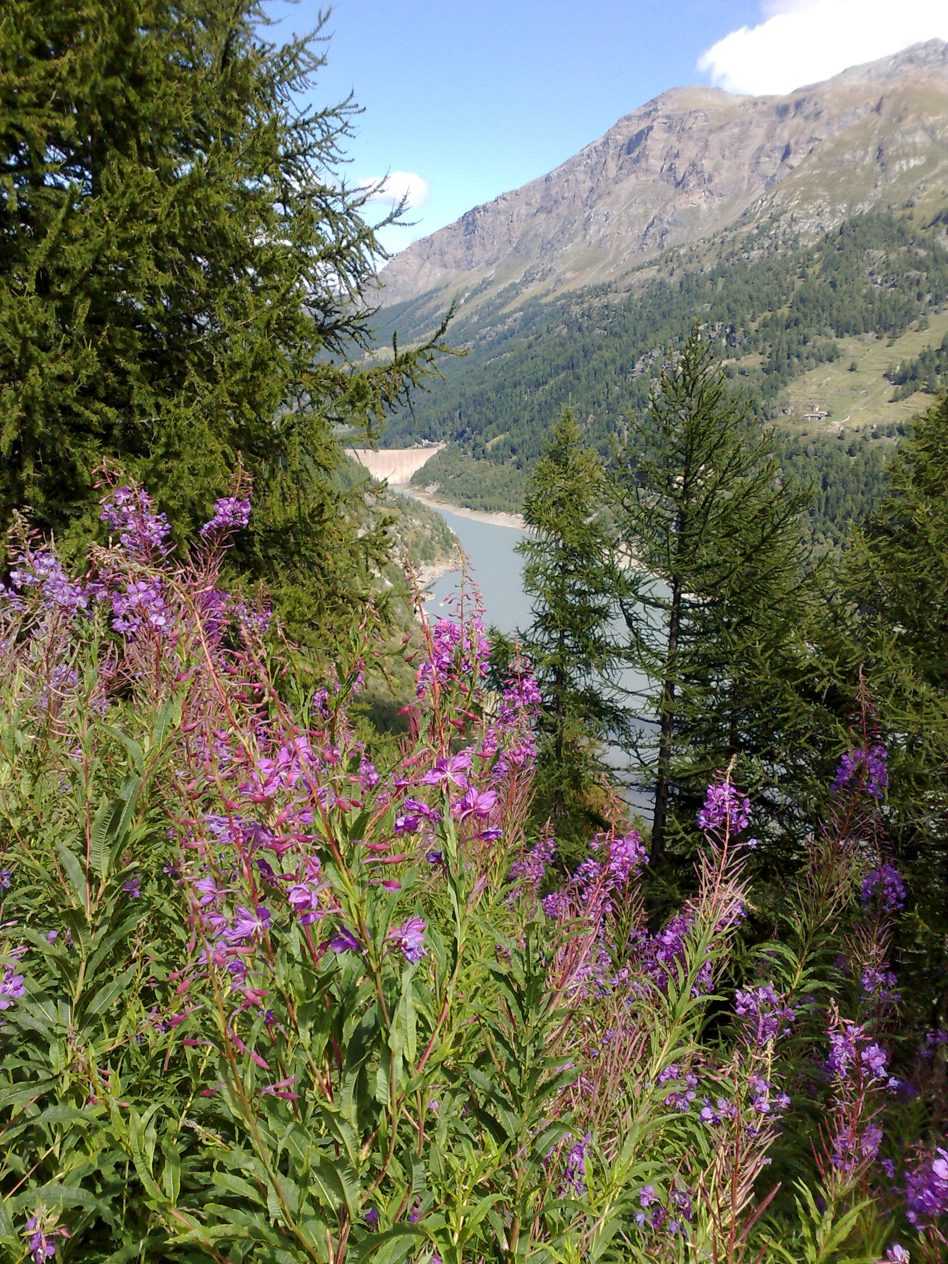 Lake and dam of Beauregard, Aosta Valley, Italy.